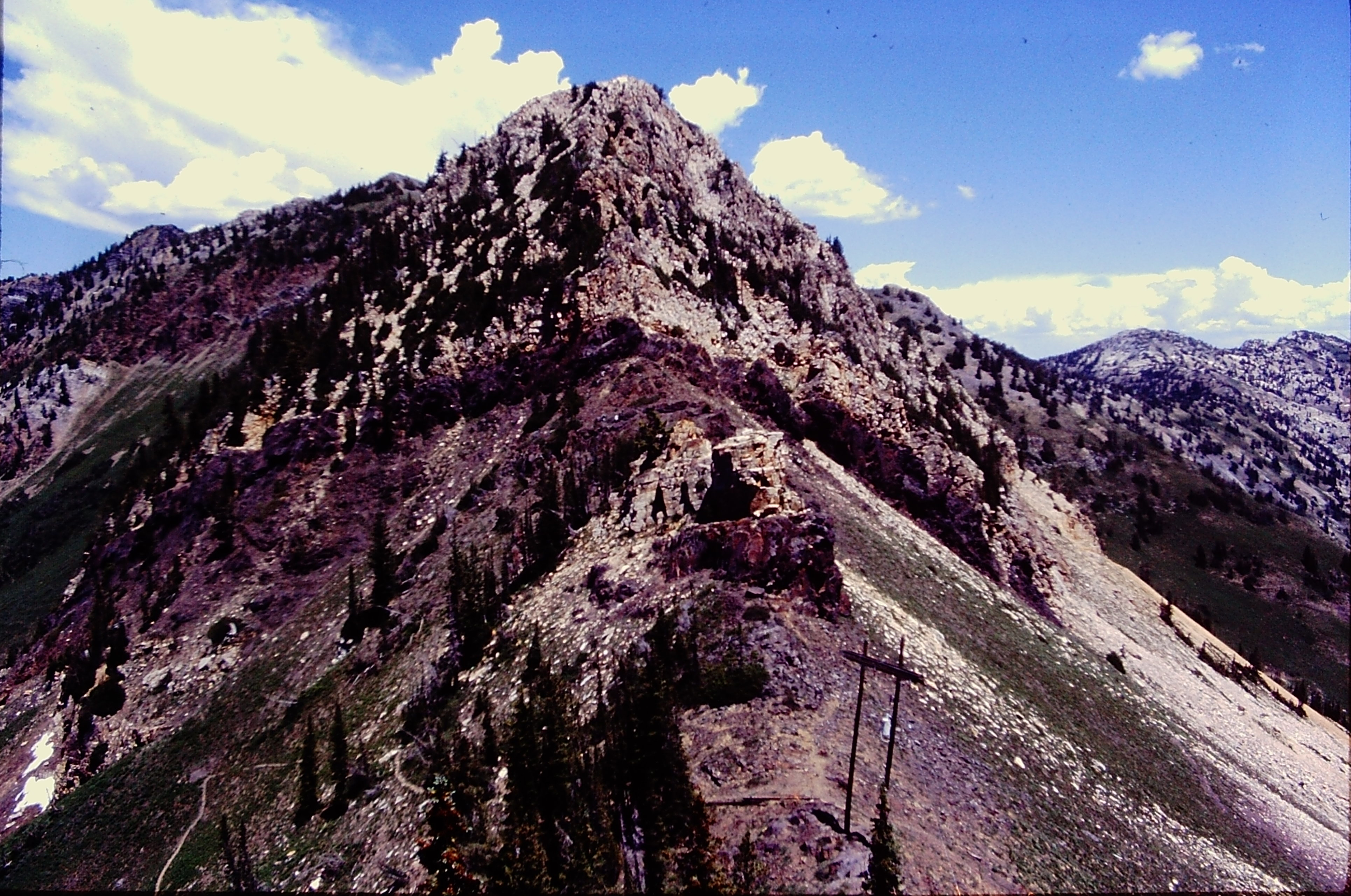 The Arête between Big Cottonwood Canyon (left) and Little Cottonwood Canyon (right), Utah, including Boundary Peak. Taken July 1997, facing roughly east.